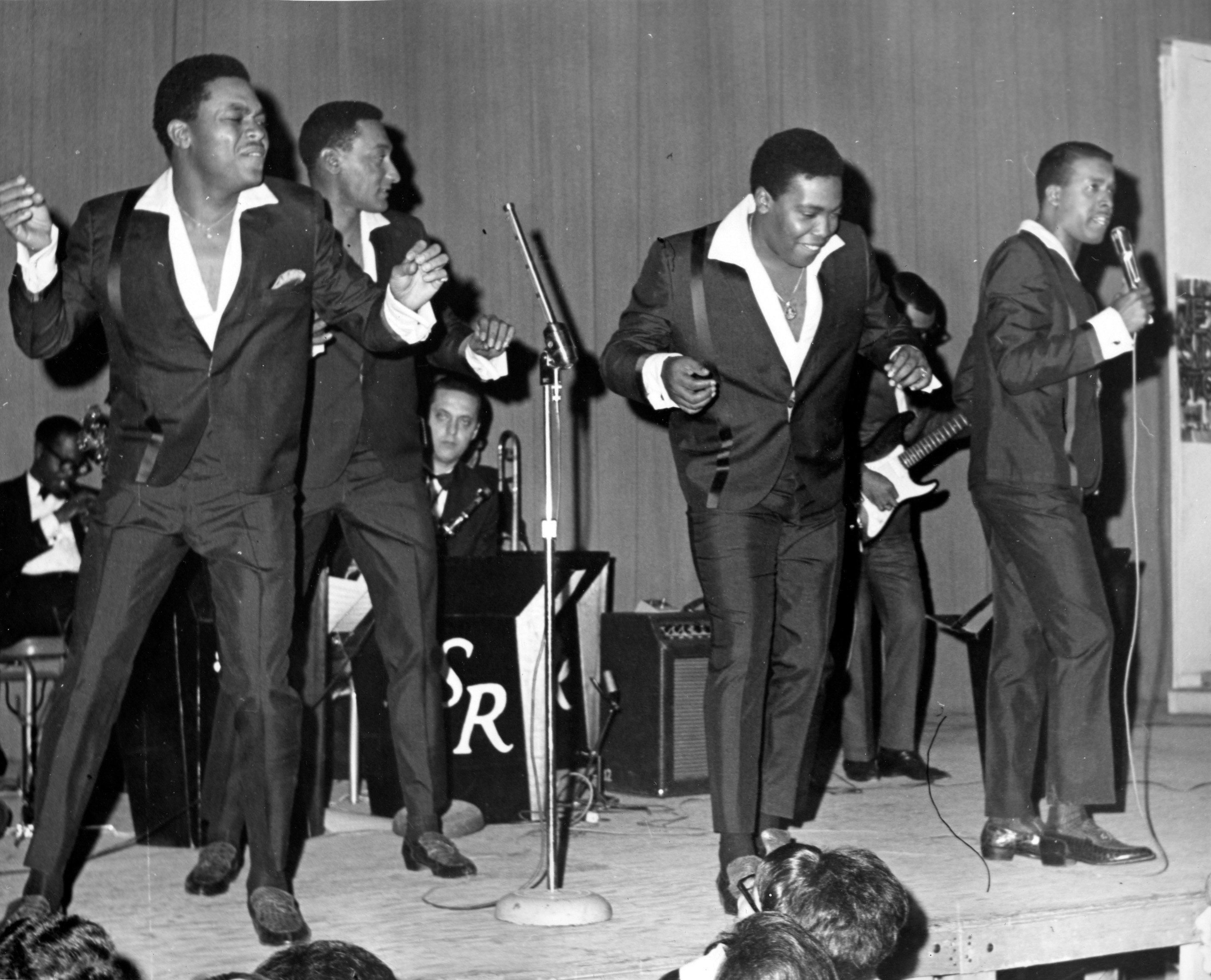 The Four Tops in concert, New Rochelle High School, New Rochelle, New York.